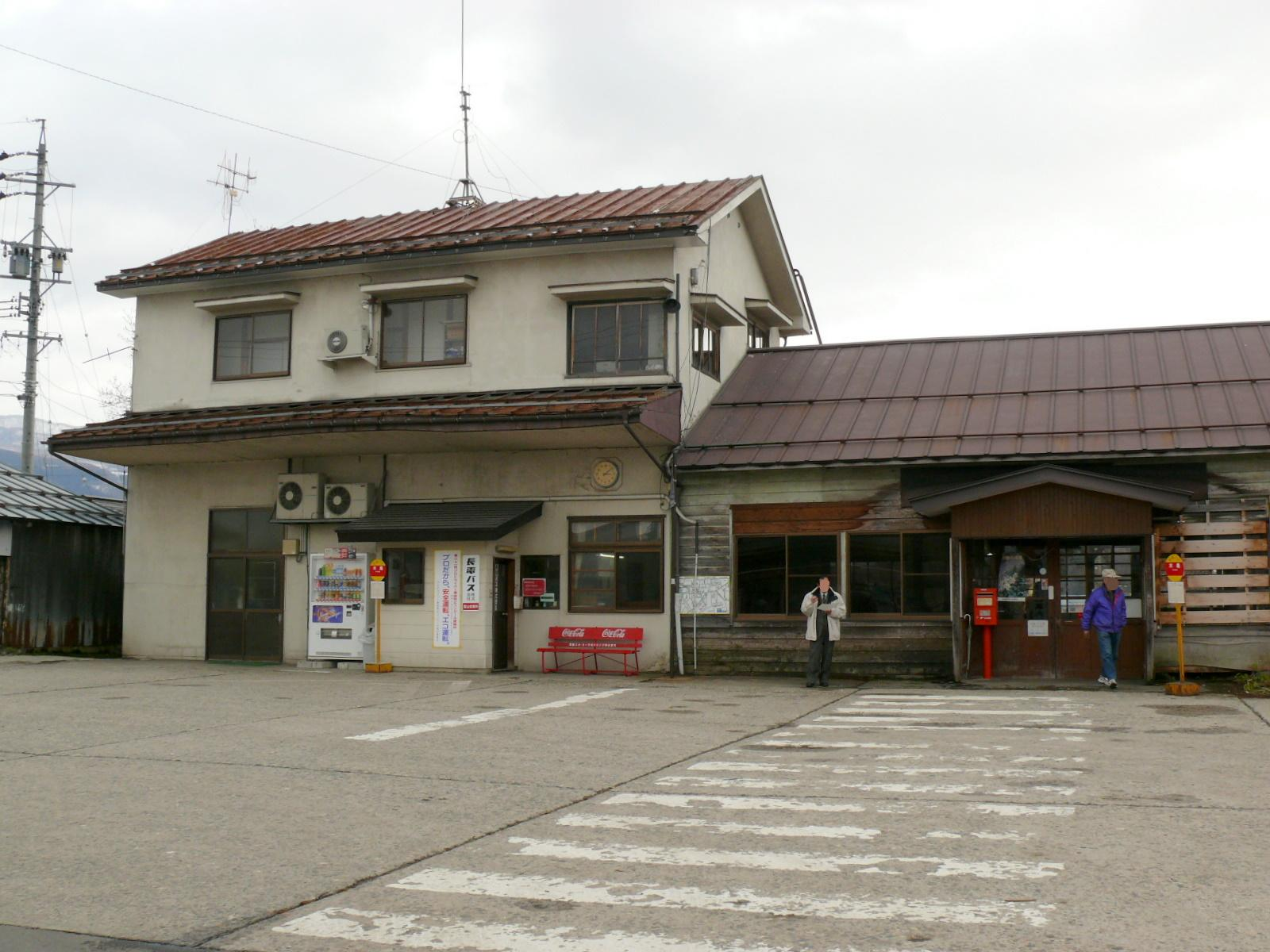 Nagano Electric Railway Kijima station(It is being abolished now.).